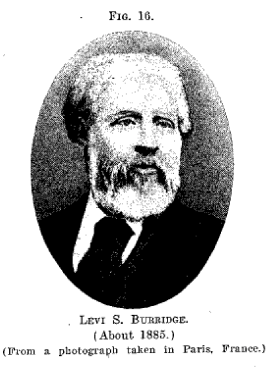 D.D.S. and M.D.